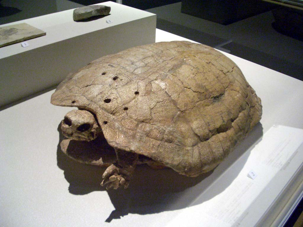 Late Cretaceous Dermatemydidae fossil. Place of origin: Bayanmandahu, Inner Mongolia. Taken in Hong Kong Science Museum